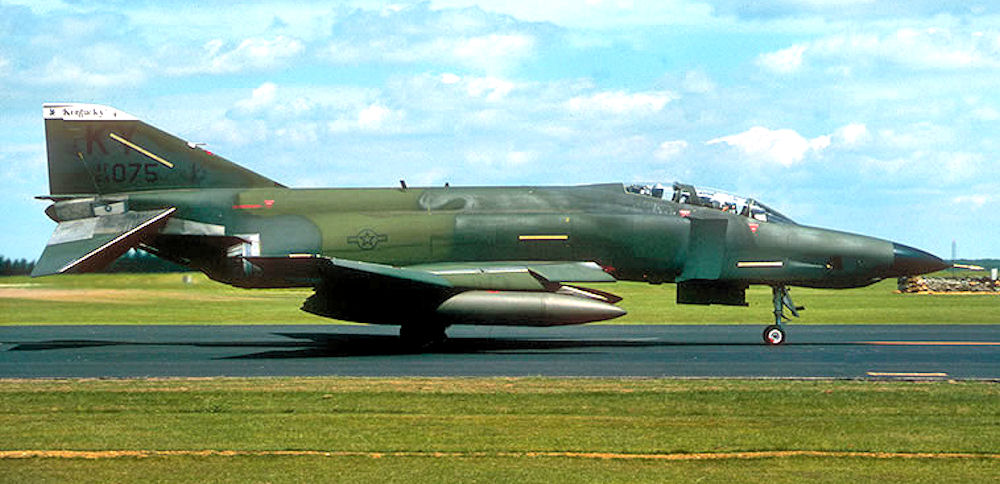 165th Tactical Reconnaissance Squadron - McDonnell RF-4C-23-MC Phantom 64-1075. Retired to AMARC as FP0912 Apr 7, 1993. Still on AMARC inventory Jan 15, 2008